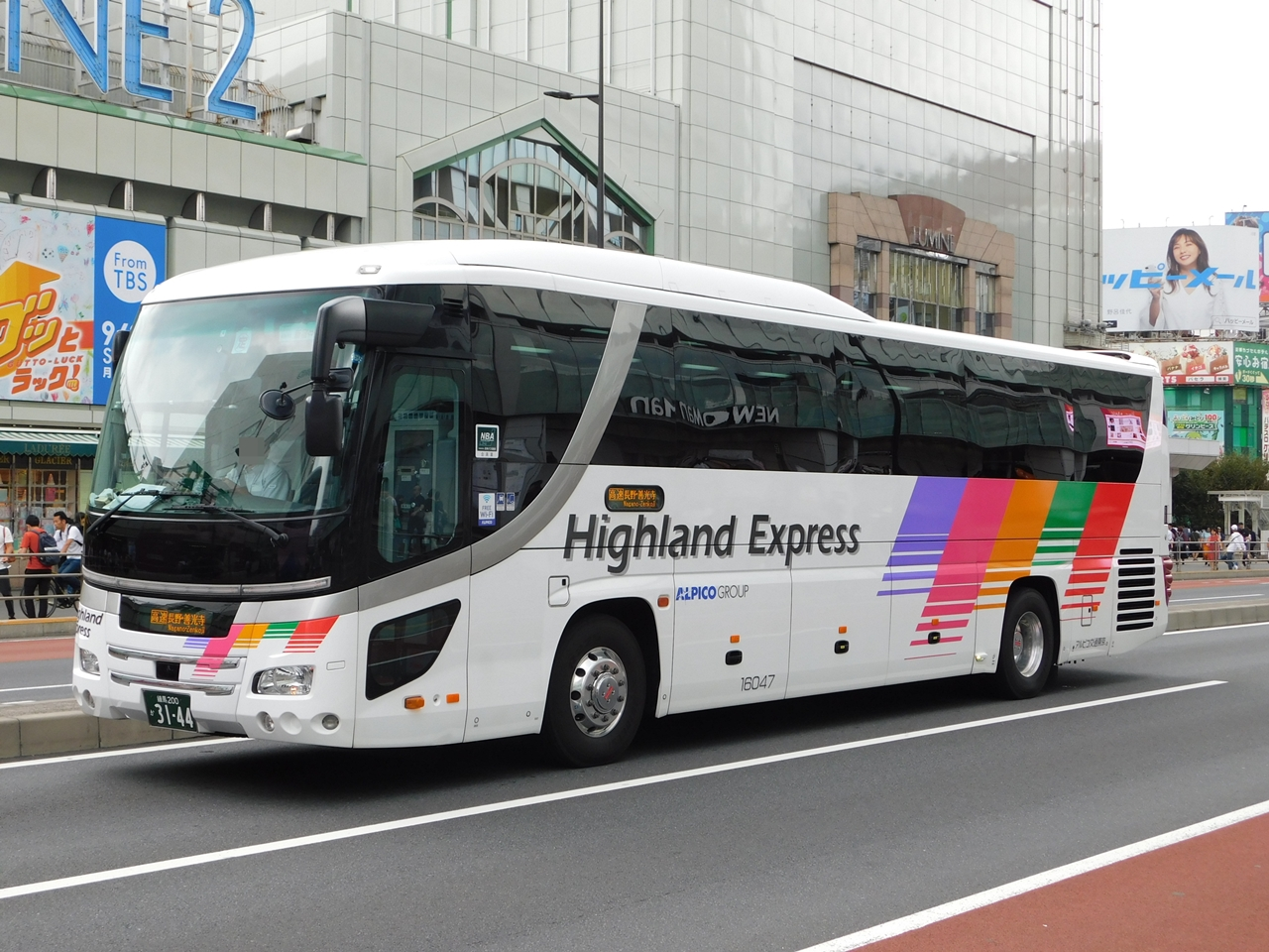 Alpico kotsu Tokyo Hino S'elegahighwaybus "Shinjuku-Nagano"